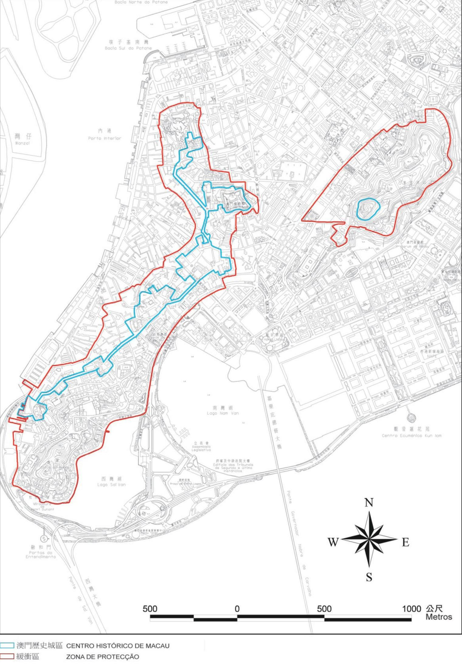 Map of Historic Centre of Macao, in Appendix of Macau Law 11 of 2013. Will be dealt in JPG later.